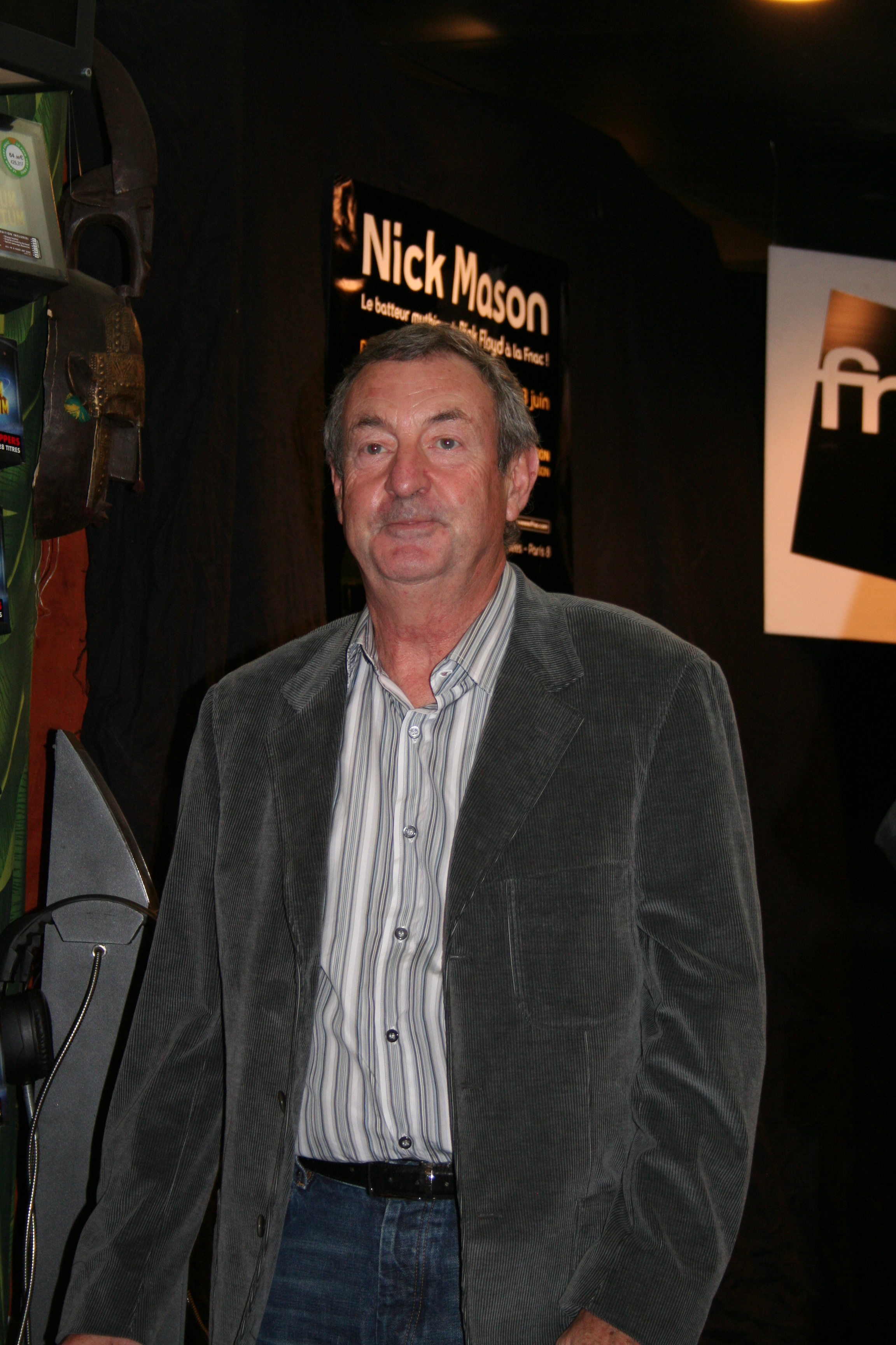 Autograph session with Nick Mason at Fnac des Champs-Élysées (Paris, France).